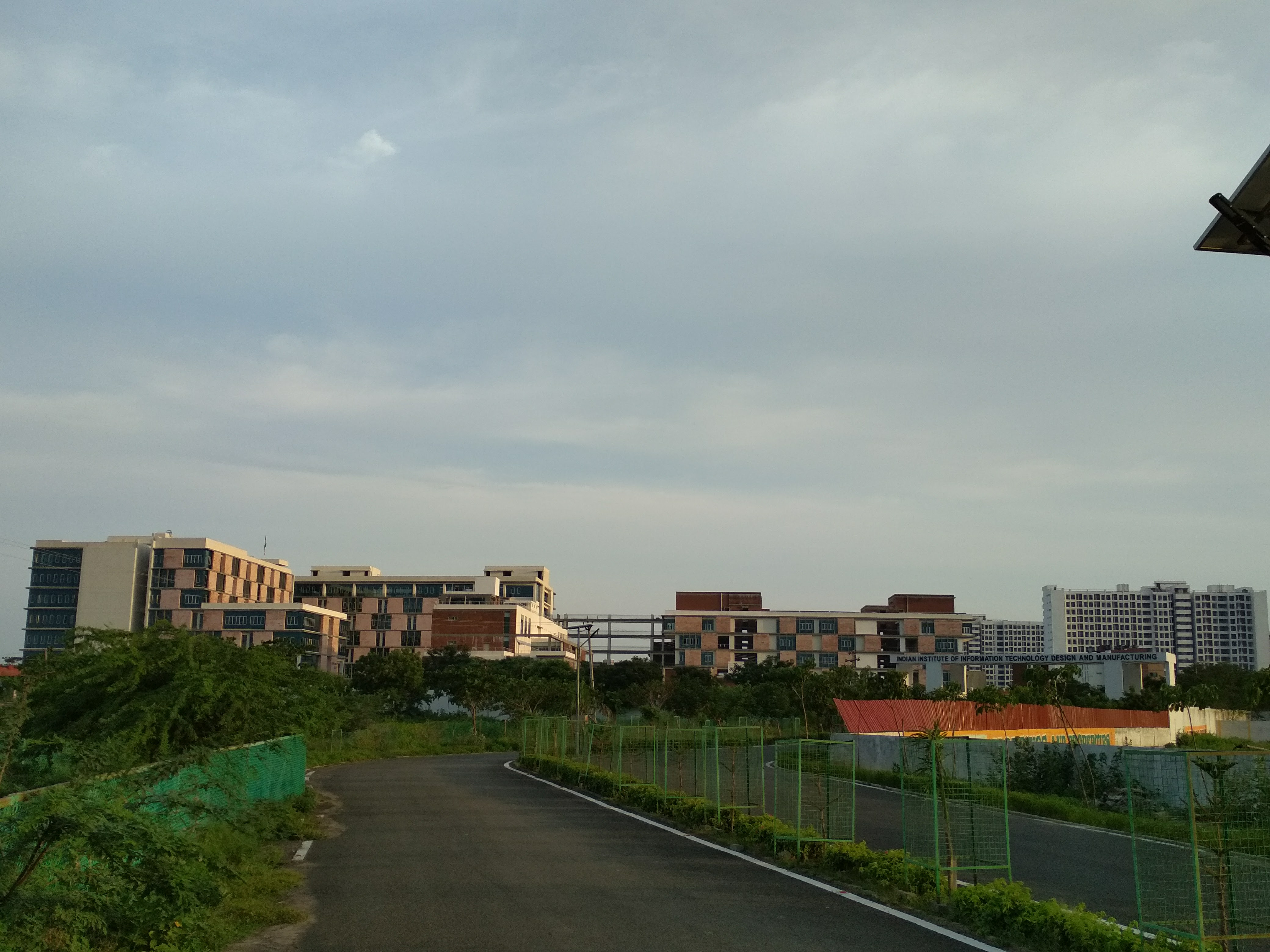 A panoramic shot of IIITDM Kancheepuram